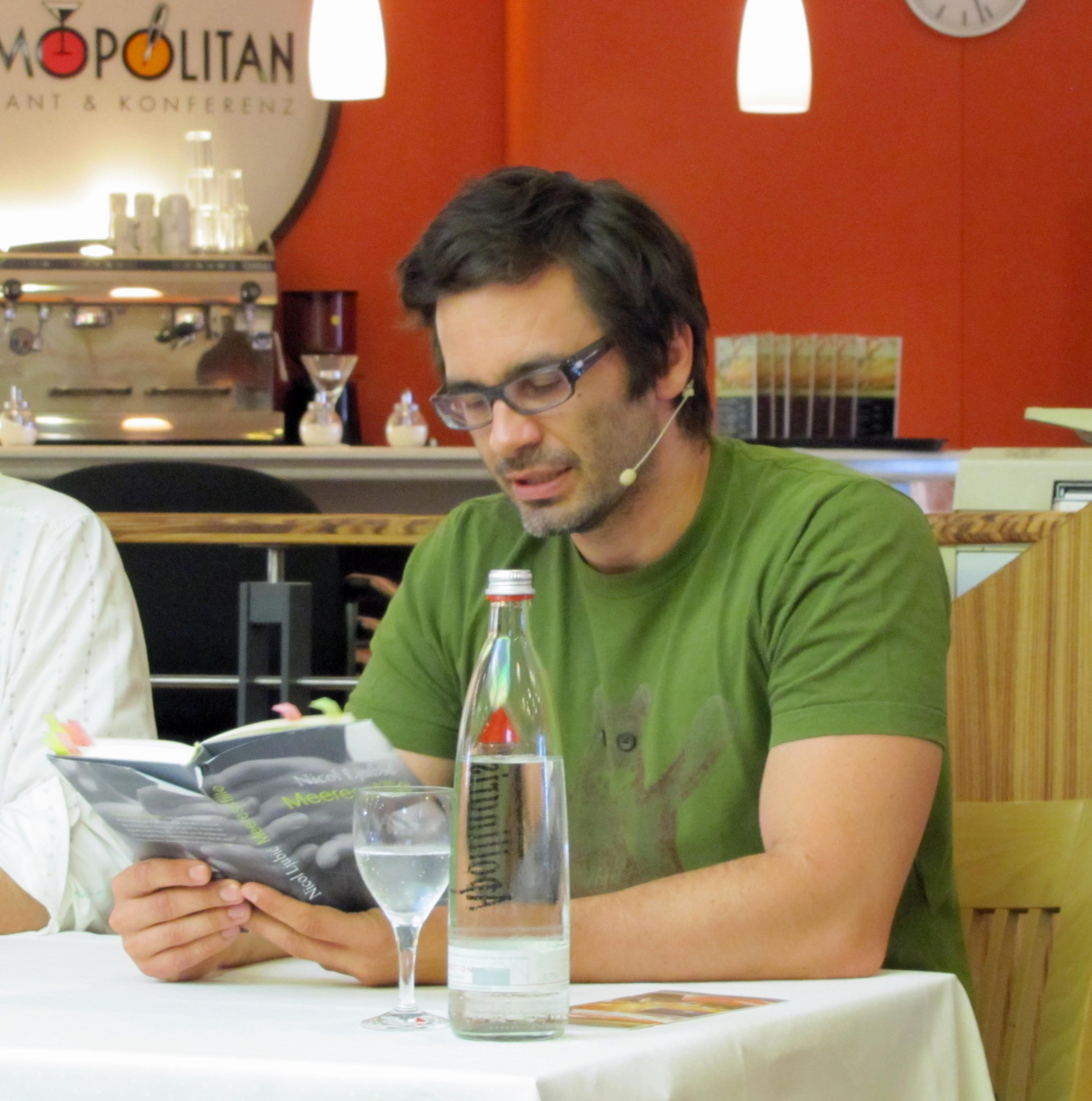 Nicol Ljubic, German journalist and writer, 2011 in Frankfurt am Main, Germany.